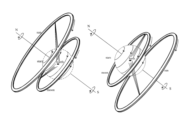 Illustration of Anaximander's models of the universe. On the left, daytime in summer; on the right, night time in winter.